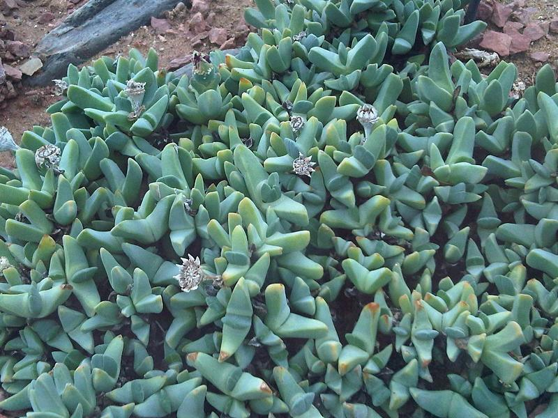 Cheiridopsis speciosa at Kew Gardens, England.